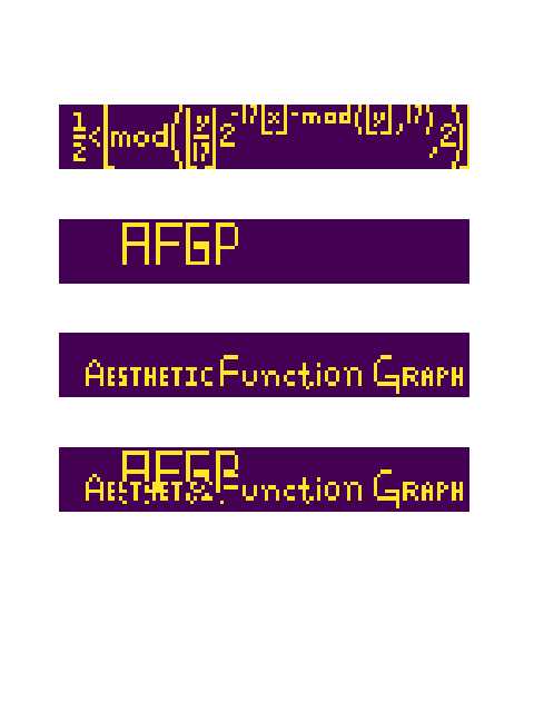 Plot to demonstrate that k is is actually base ten value of the binary number that the two dimensional graph makes.